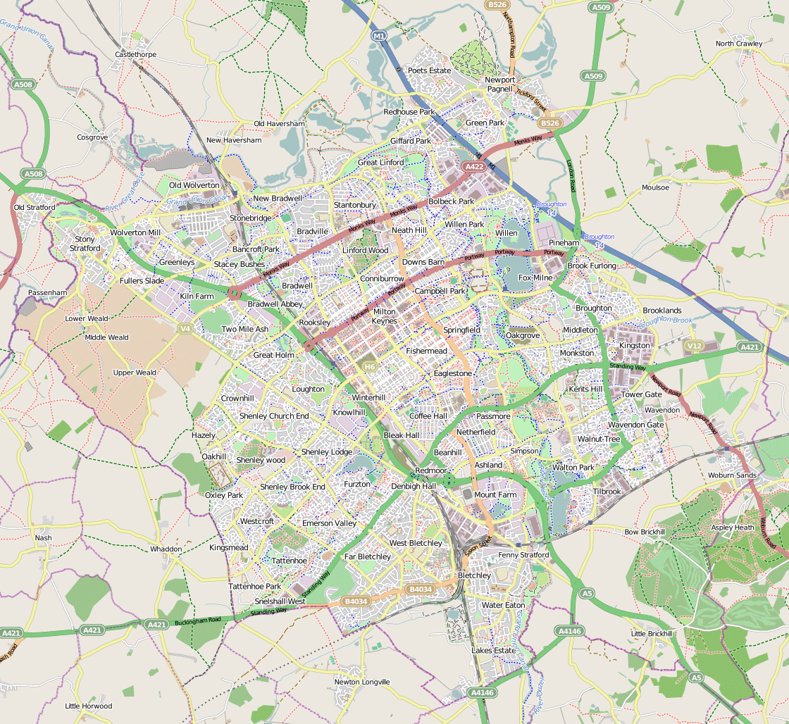 Milton Keynes built-up area